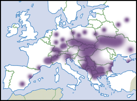 Aegopinella minor (Stabile, 1864). Distributional range in Europe, scientific state of knowledge of 2012. Source description in English. Light colour indicated rare occurrences or regions where the species could eventually be expected to occur. Dark colour indicated relatively reliable occurrences, as well as regions where the species was expected to occur, and where the species was not known to be extremely rare. Dark colour indications were not necessarily based on published records Species summary in AnimalBase